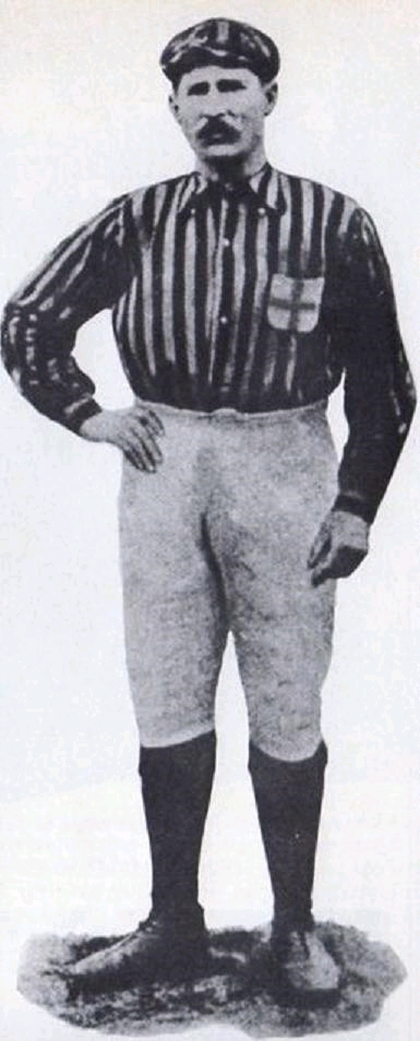 Herbert Kilpin - założyciel Milanu Herbert Kilpin - father of A.C. Milan